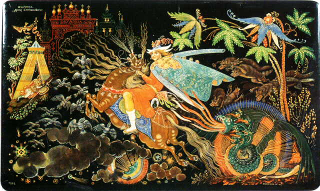 Bogatyr Dyuk Stepanovich. Palekh miniature on a casket.